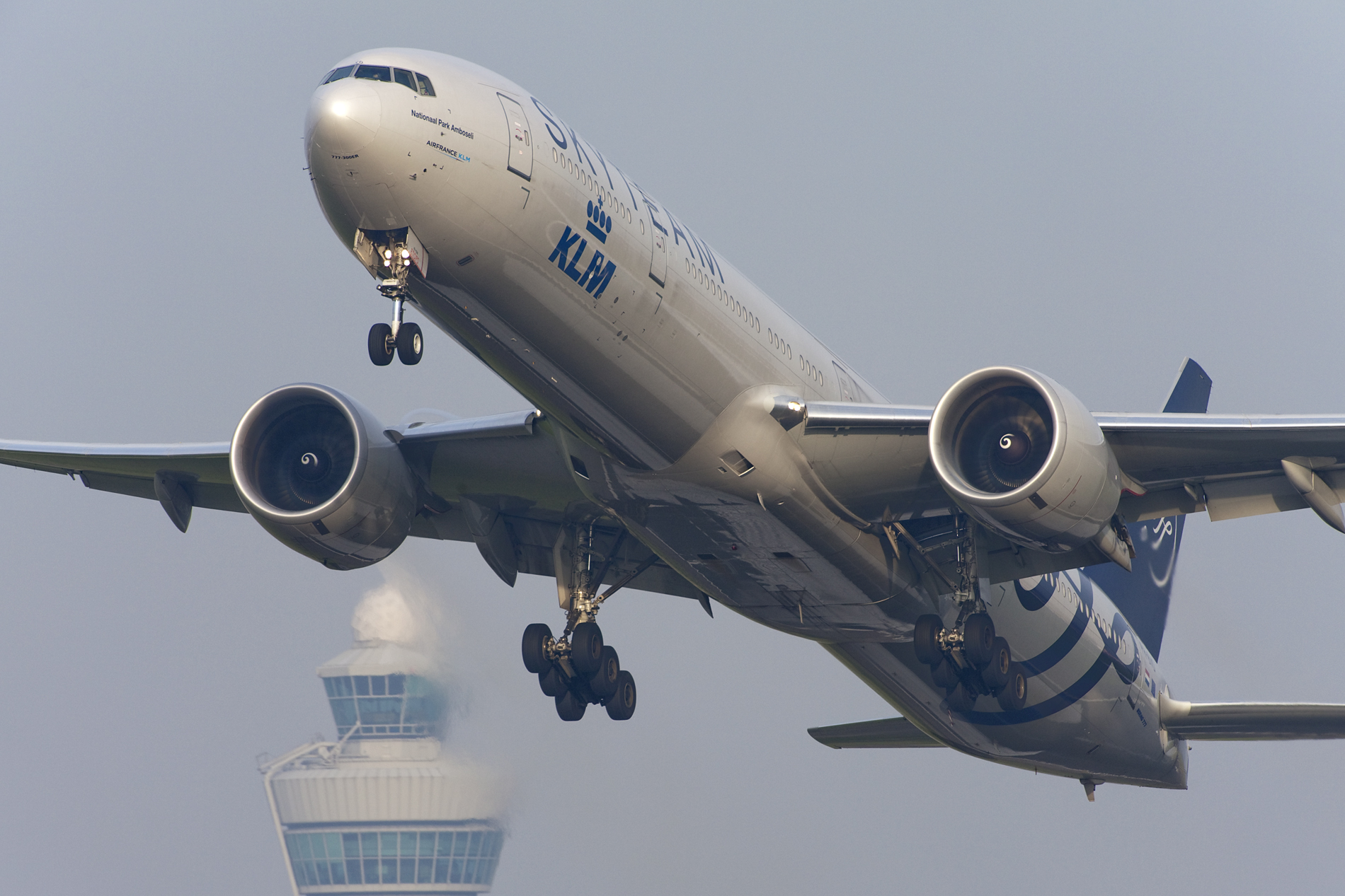 Schiphol